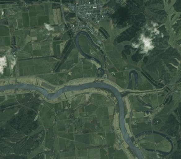 Japan : Oxbow lakes of the Teshio river near Honorobe (Hokkaidō).